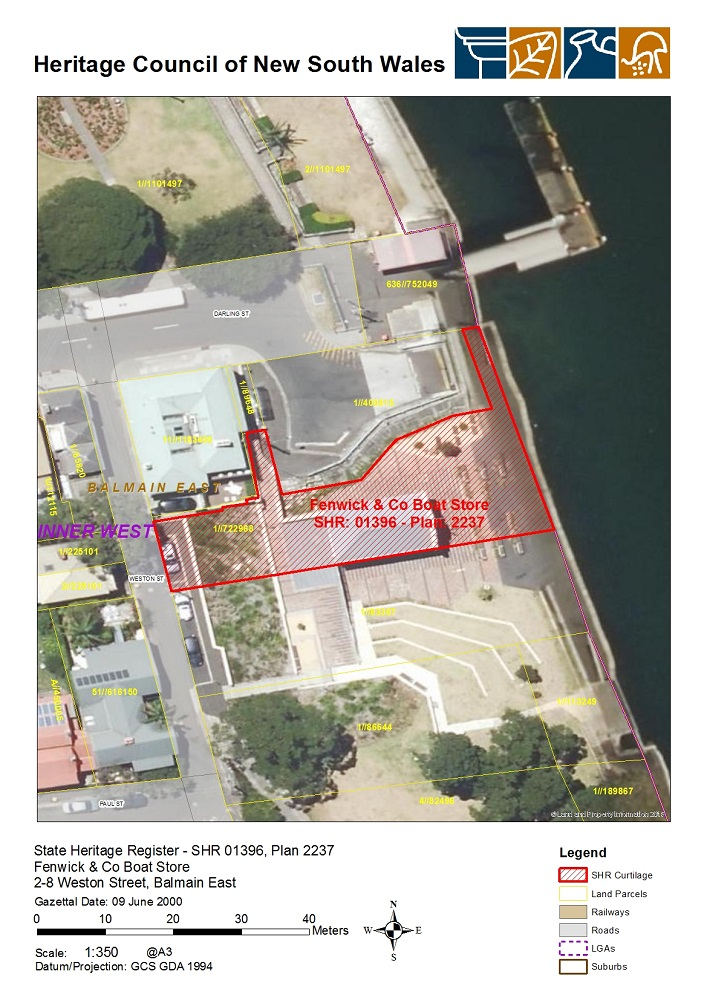 Fenwick & Co Boat Store: SHR Plan 2237